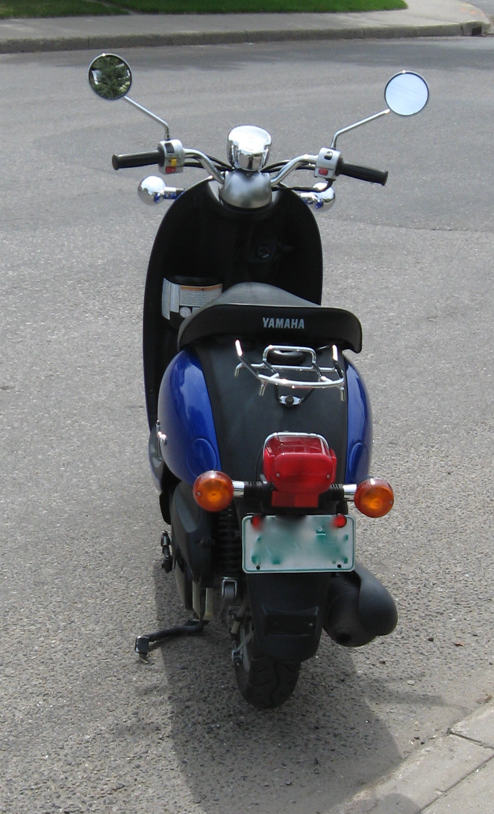 50cc Vino scooter, shot on a local street